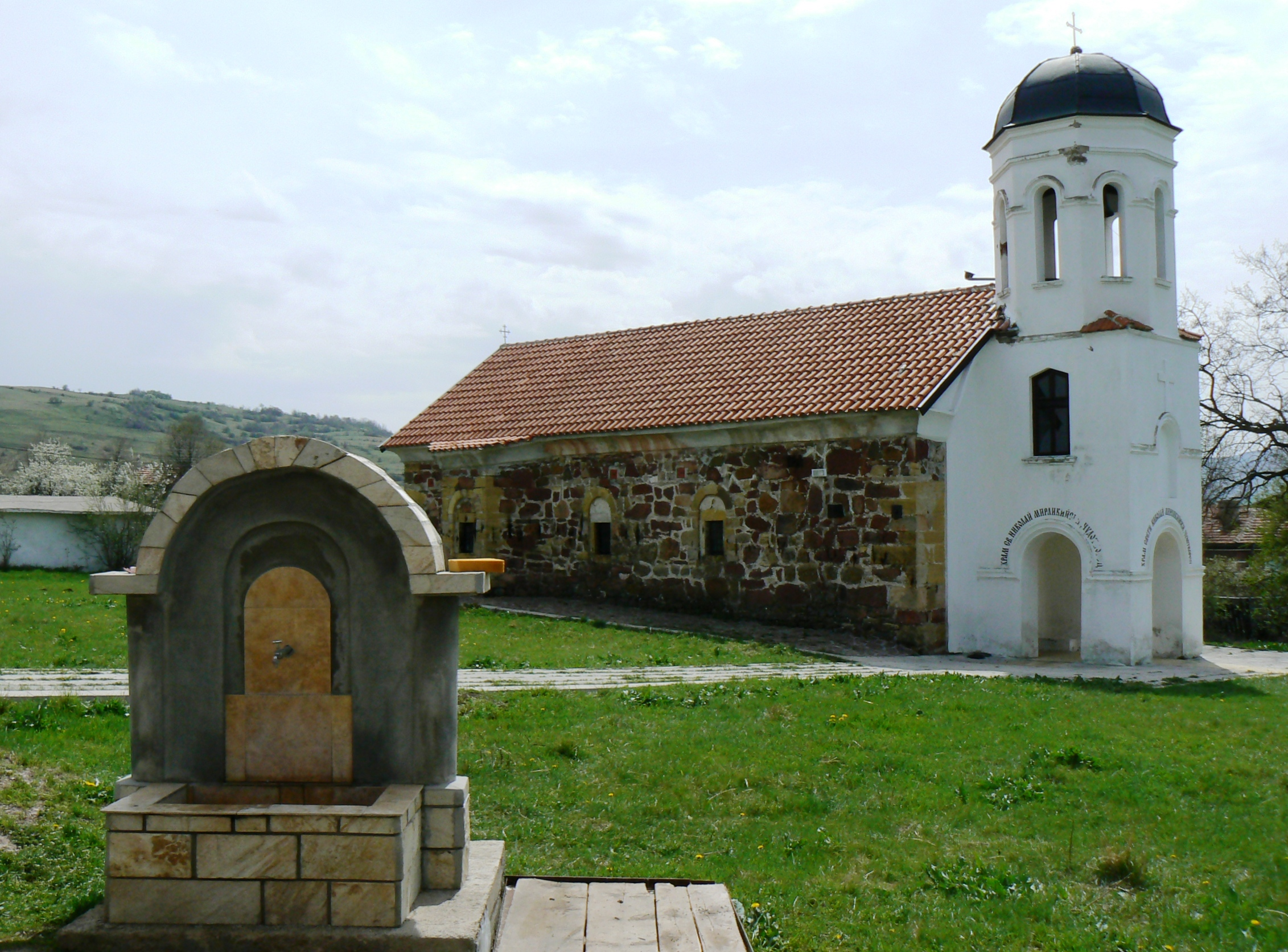 Church "Saint Nikolai Mirlikiski" in village Yardzhilovtsi, Bulgaria